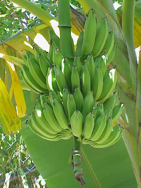 Musa sp. (banana tree)